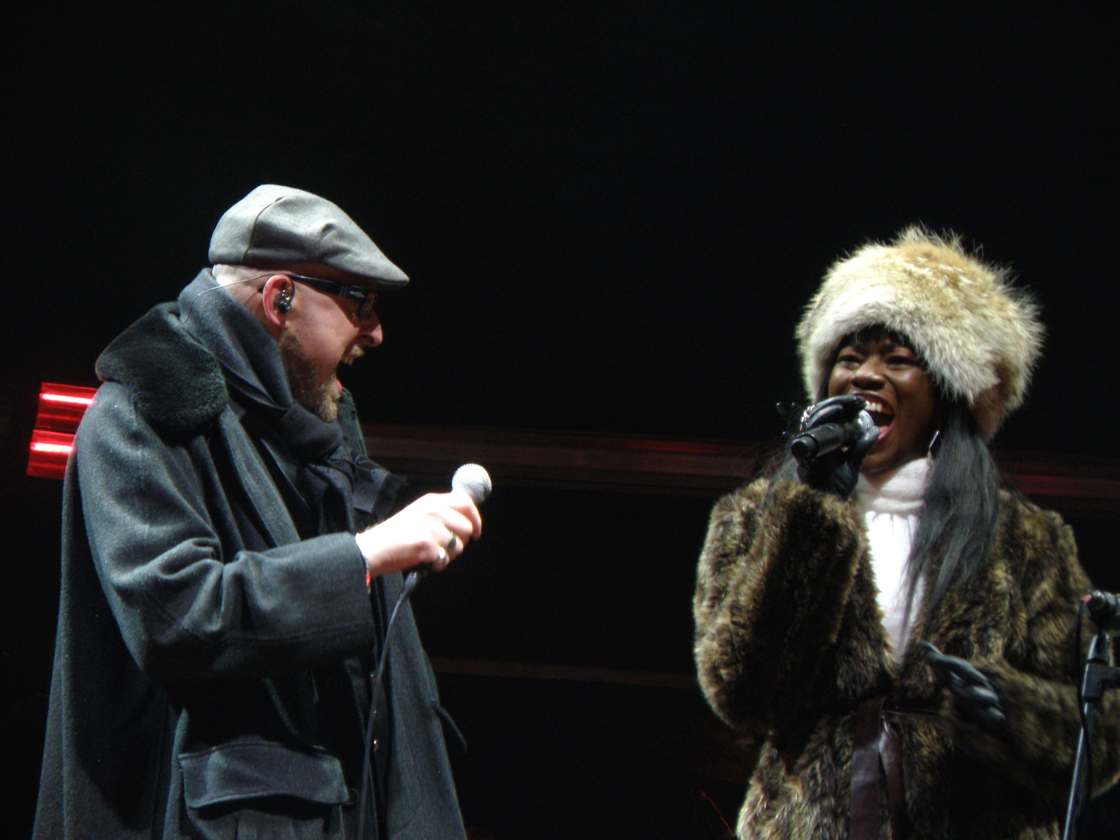 Mario Biondi is singing with a singer of the British Band Incognito in piazza Duomo, Milan, Italy.